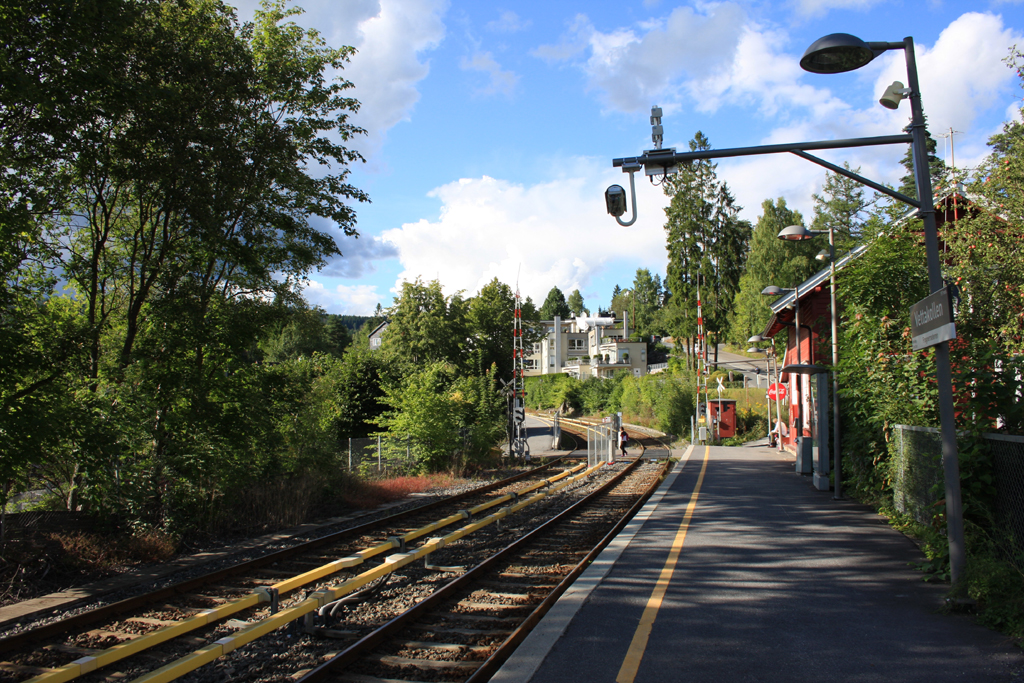 Vettakollen Metrostation. Seen from rail one.